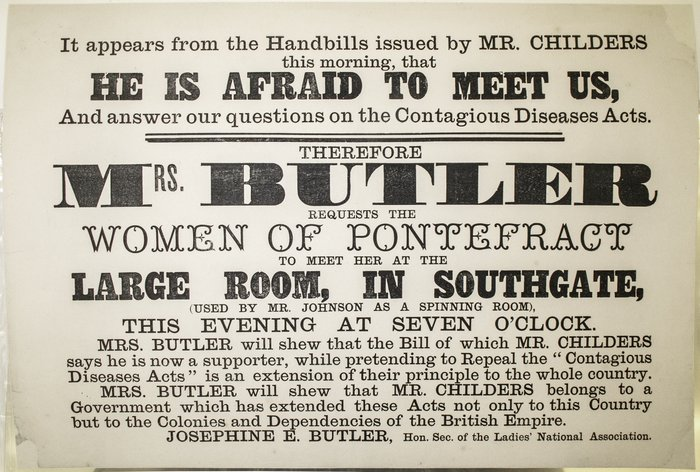 Notice of a public meeting issued by Josephine Butler during the Pontefract by-election, 1872